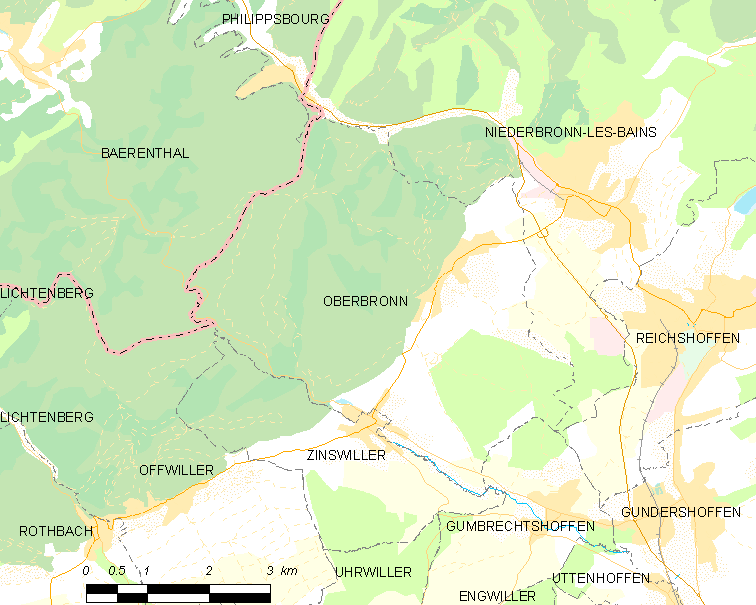 Map of French municipality